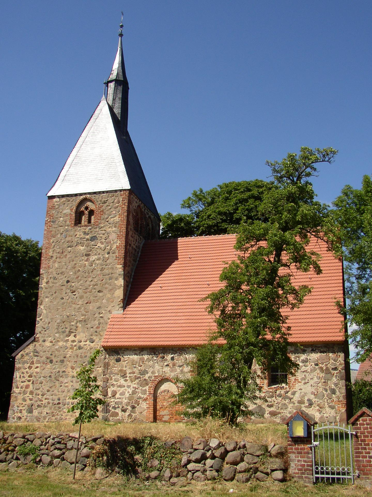 Church in Pritzwalk-Sarnow in Brandenburg, Germany